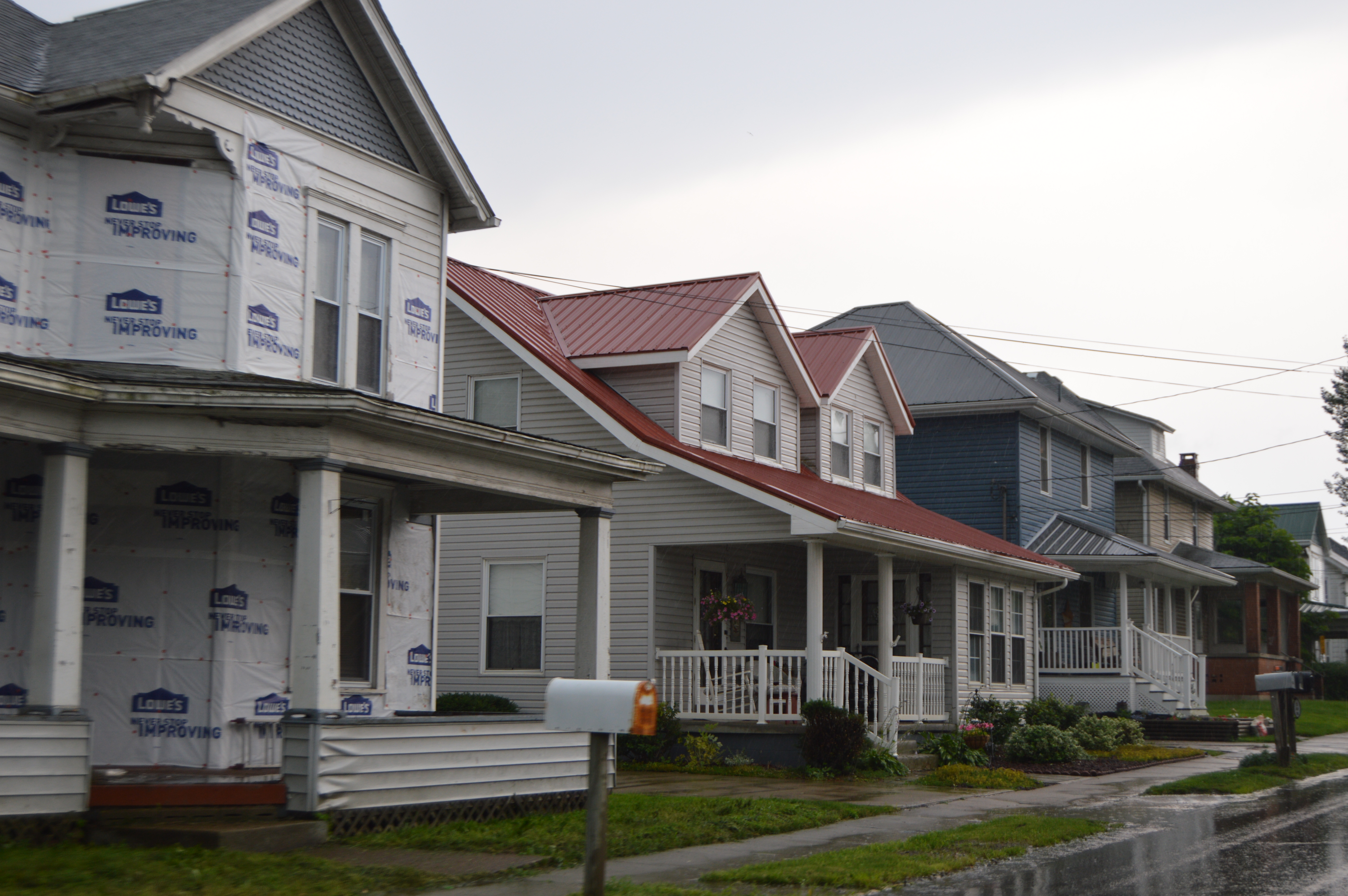 Houses on the southern side of Maple Avenue (State Route 147) west of Main Street in Bethesda, Ohio, United States.